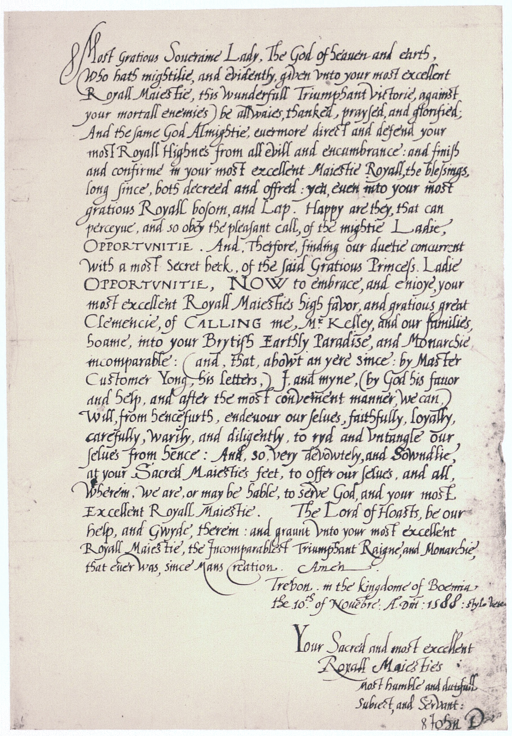 A letter of John Dee to Queen Elizabeth I of England. London, British Library, Harley 6986, fol. 45r.